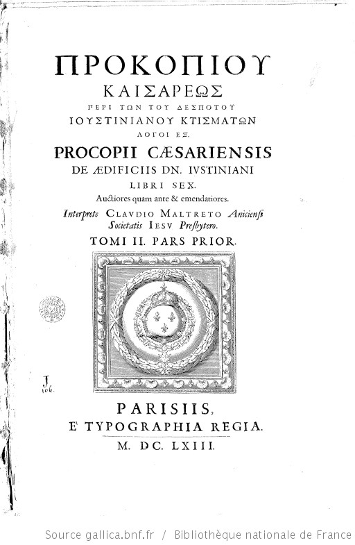 Title page of De aedificiis, Propcopius of Caesarea, 1663